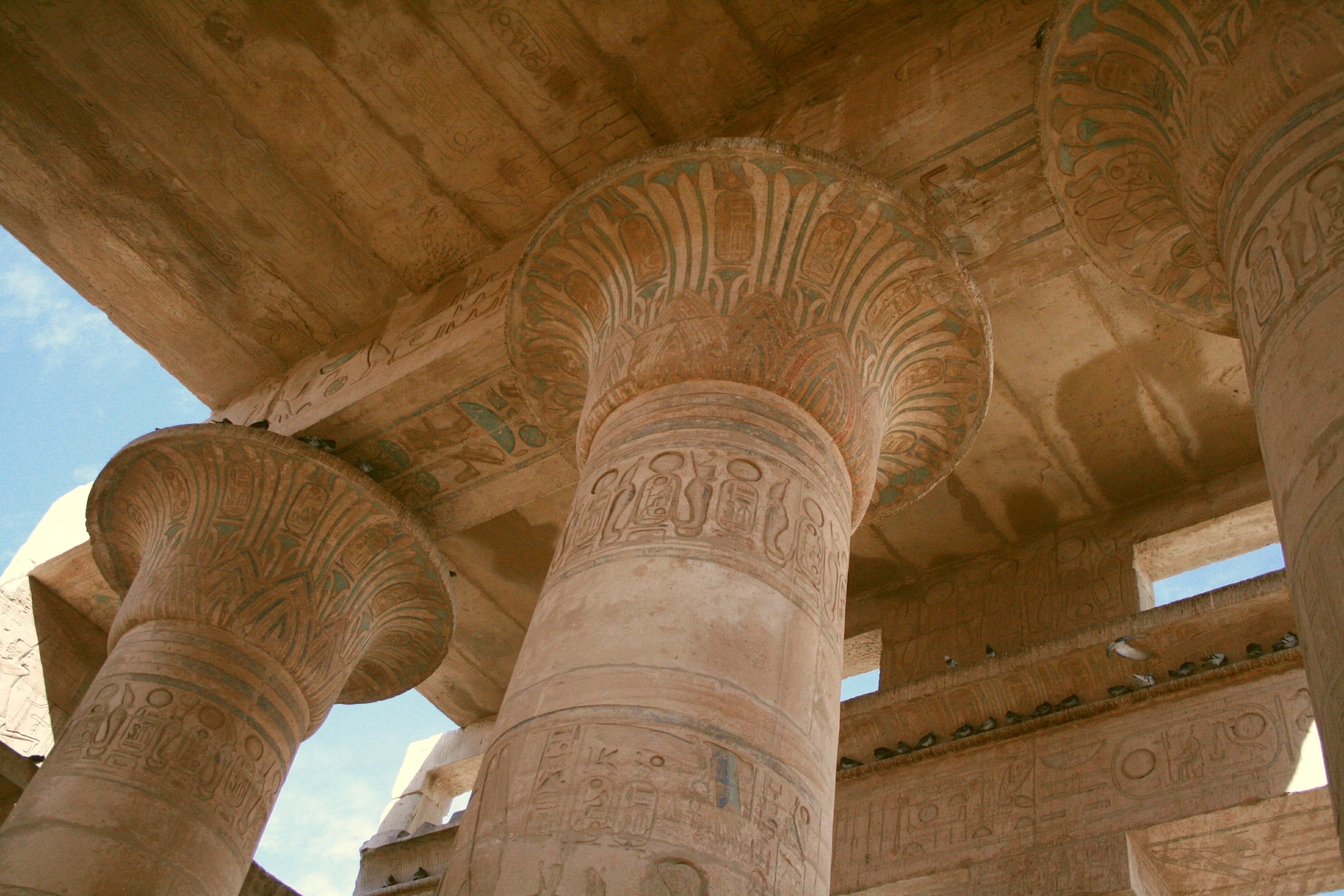 Mortuary Temple of Rameses II - The Ramasseum